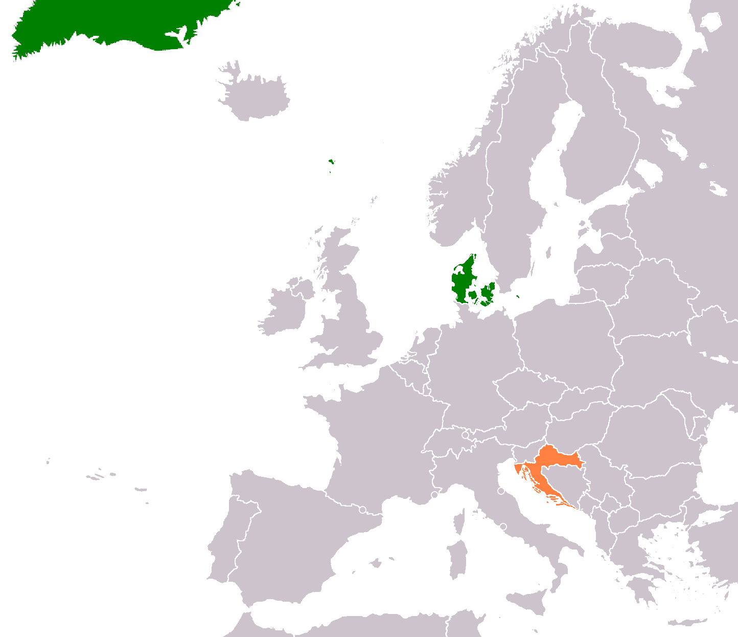 Map of Europe with the locations of Denmark (green) and Croatia (orange).